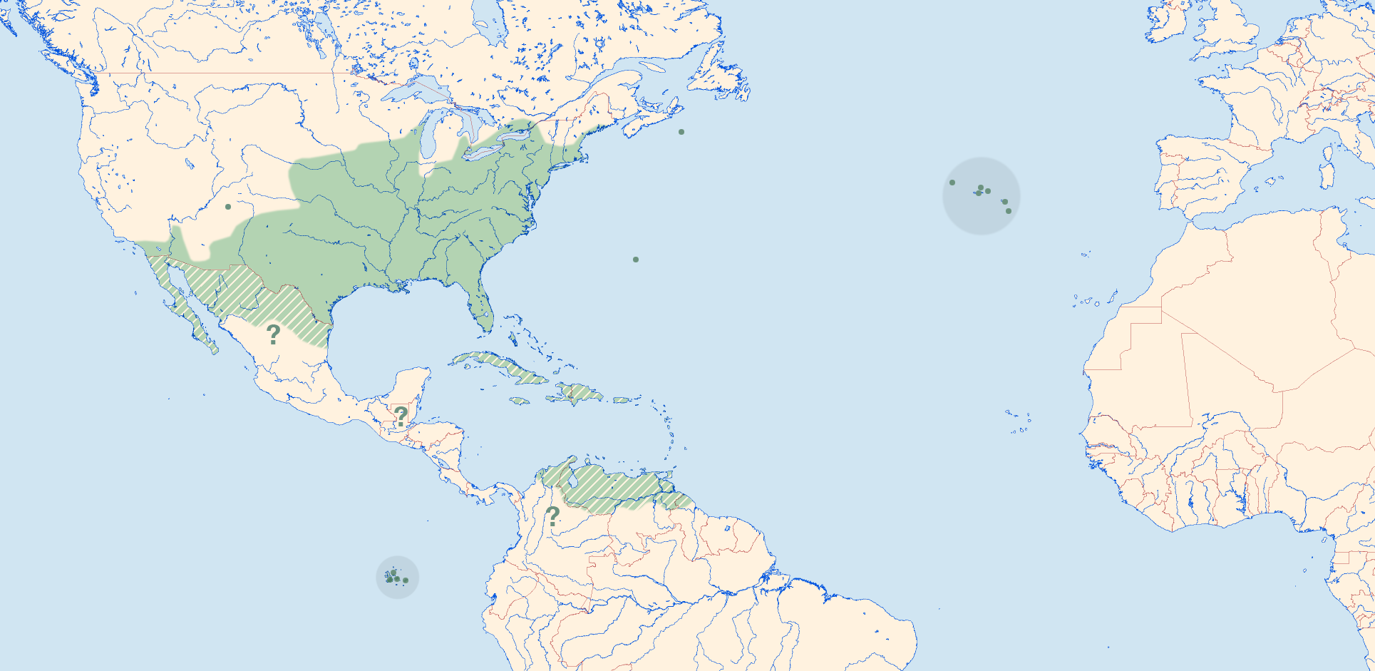 Distribution of Citrine Forktail (Ischnura hastata). Areas not covered by maps are hatched. Data Sources (In case of discrepancies in the map source the youngest in each data source was used): Dennis Paulson: Dragonflies and Damselflies of the East, Princeton Field Guides, Princeton University Press, New Jersey 2011, ISBN 978-0-691-12283-0. Dennis Paulson: Dragonflies and Damselflies of the West, Princeton Field Guides, Princeton University Press, New Jersey 2000, ISBN 978-0-691-12281-6. Distribution Summary of North American Zygoptera Compiled originally from James George Needham, Minter Jackson Westfall, Michael L. May: Dragonflies of North America. Smithsonian Institution Press, 1996; ISBN 0-945417-94-2. Originally edited for the web by Bill Mauffray and Lyndia Beckenbach (July 1998). Updated 29-Mar-2012.